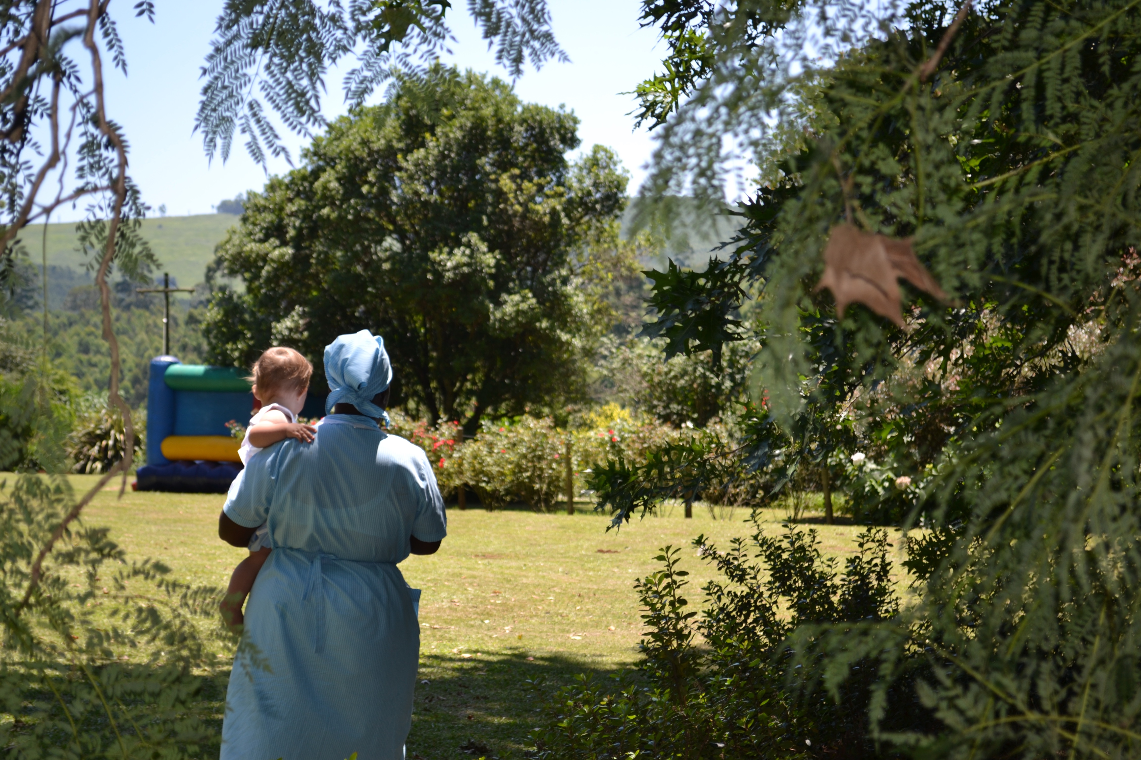 Domestic worker/nanny, KZN Midlands, South Africa This is an image of "African people at work" from South Africa